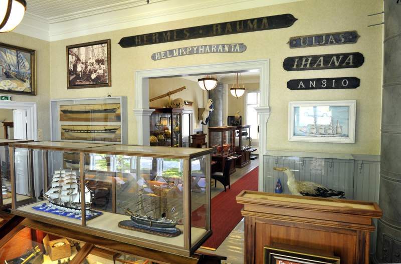 The Figurehead Room, one of the rooms in Rauma maritime museum's permanent exhibition